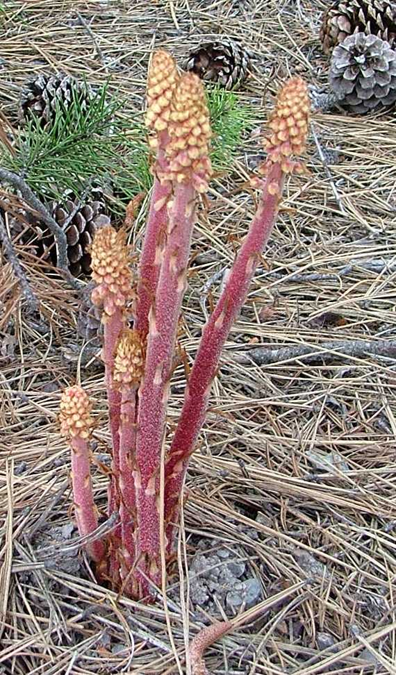 Pinedrops (Pterospora andromedea) — recently emerged in Sunriver, Oregon. Credits Taken on FujiFilm Finepix S5000 at 2 Mpixel resolution on 6/23/2007 5:13PM. Cropped using IrfanView. ISO 200; 8mm FL; 1/90s at F/2.8